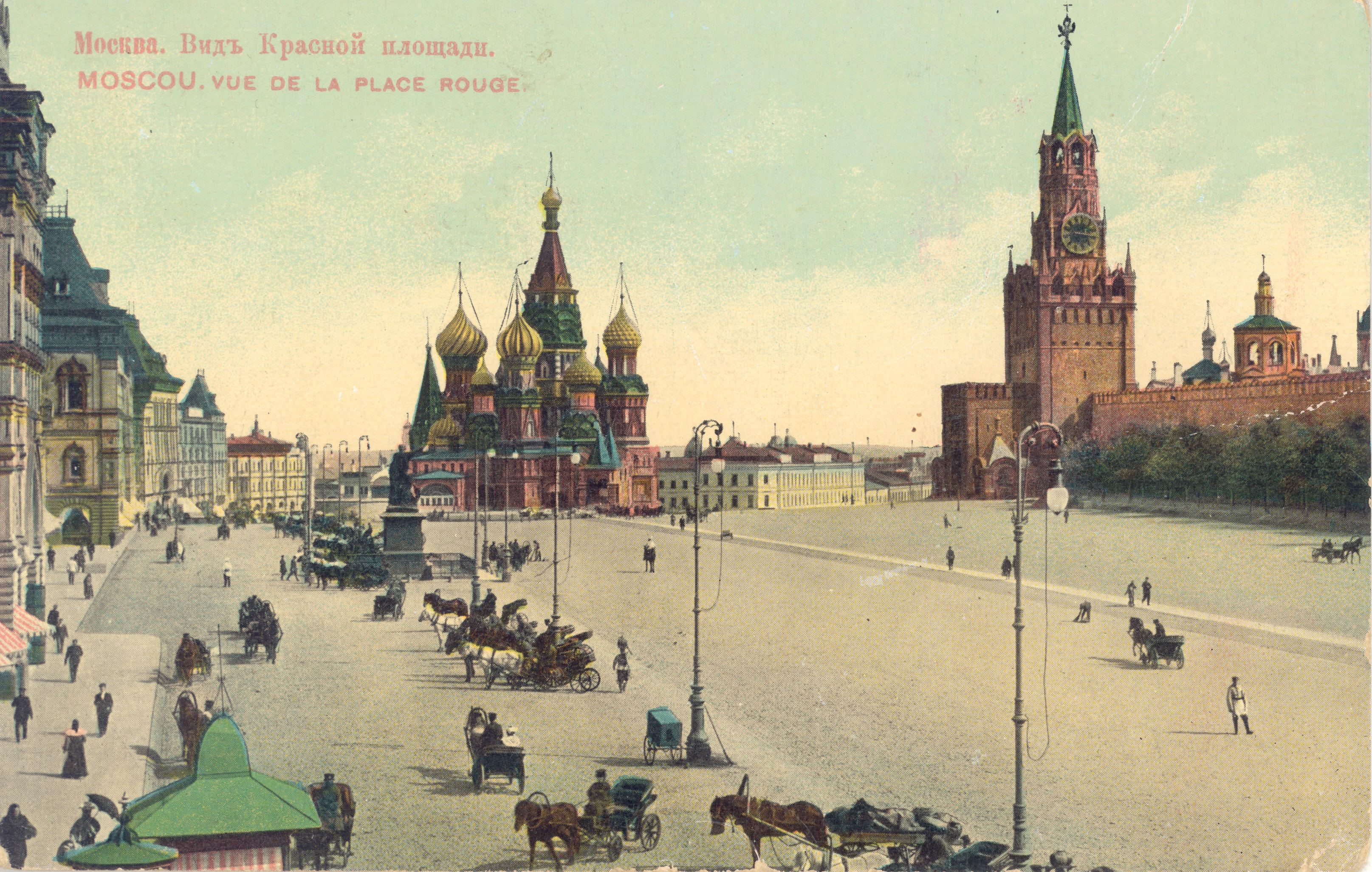 pre-revolutionaty russian postcard of Red Square in Moscow